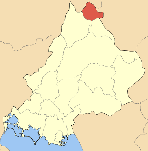 Locator map of Melissourgi community (Κοινότητα Μελισσουργών) in Arta prefecture (Νομός Άρτας) in Greece.